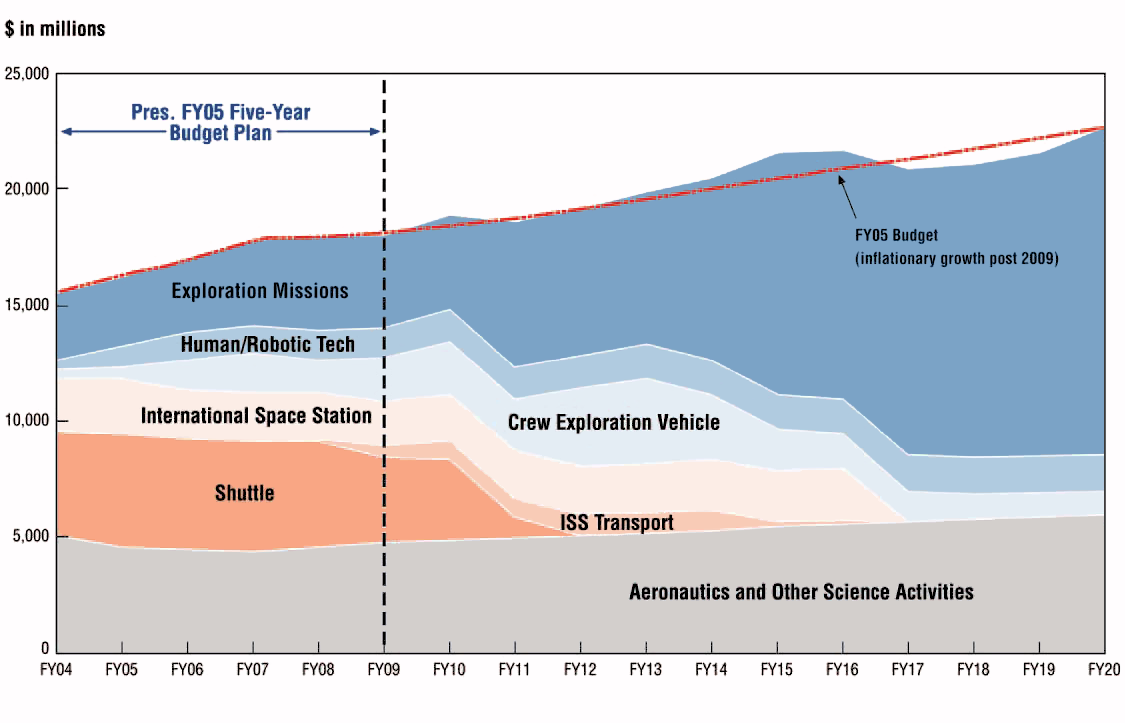 Outlook of the development of the NASA budget (as of February 2004)